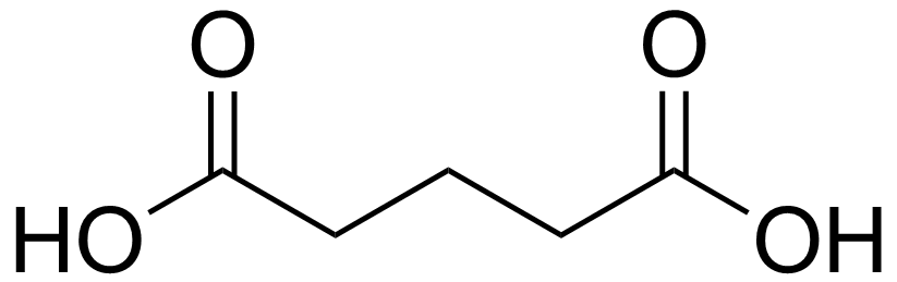 Chemical structure of glutaric acid created with ChemDraw.